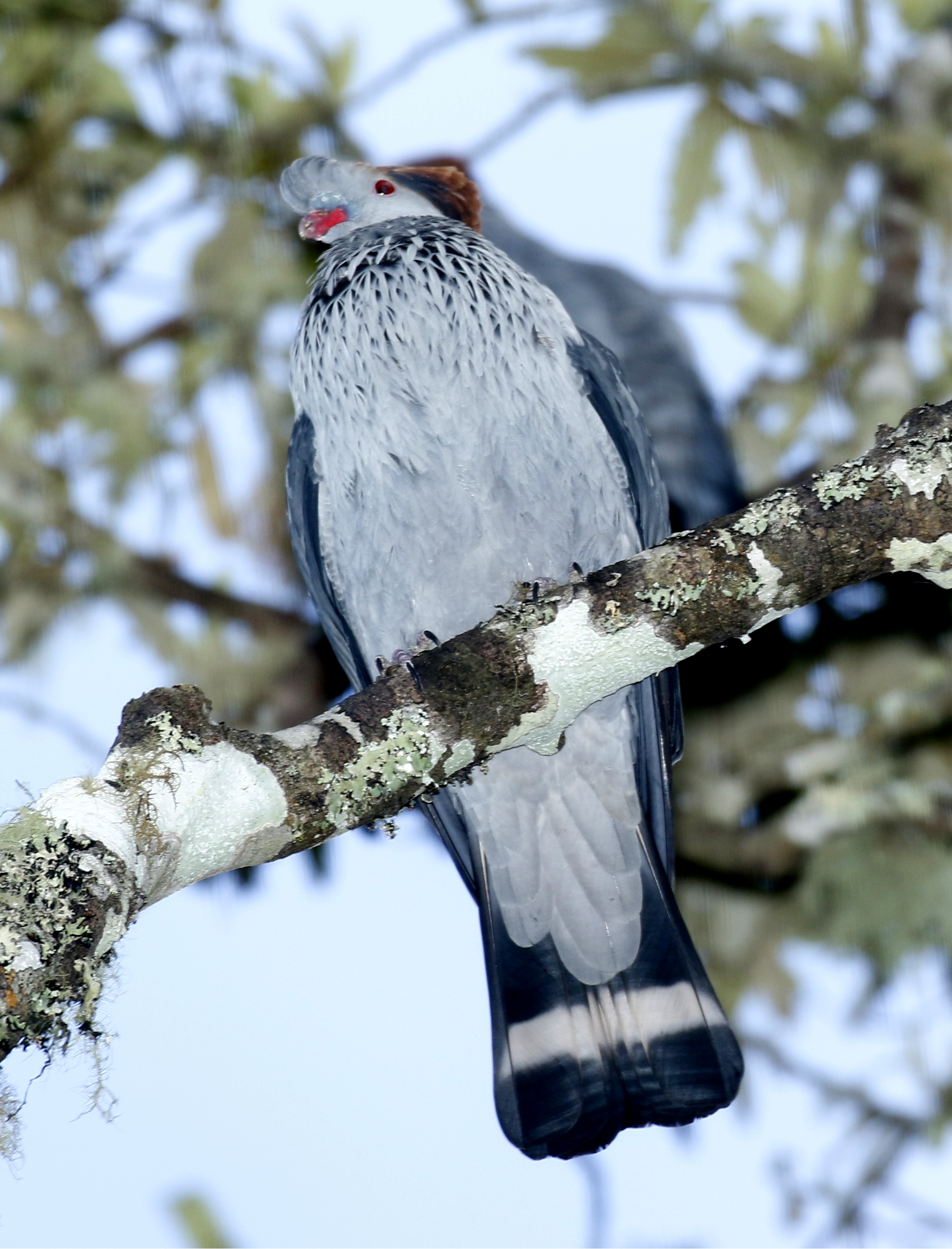 Laminington Nat'l Park - Australia (flash photo)